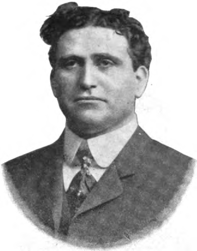 Ohio politician Clement L. Brumbaugh